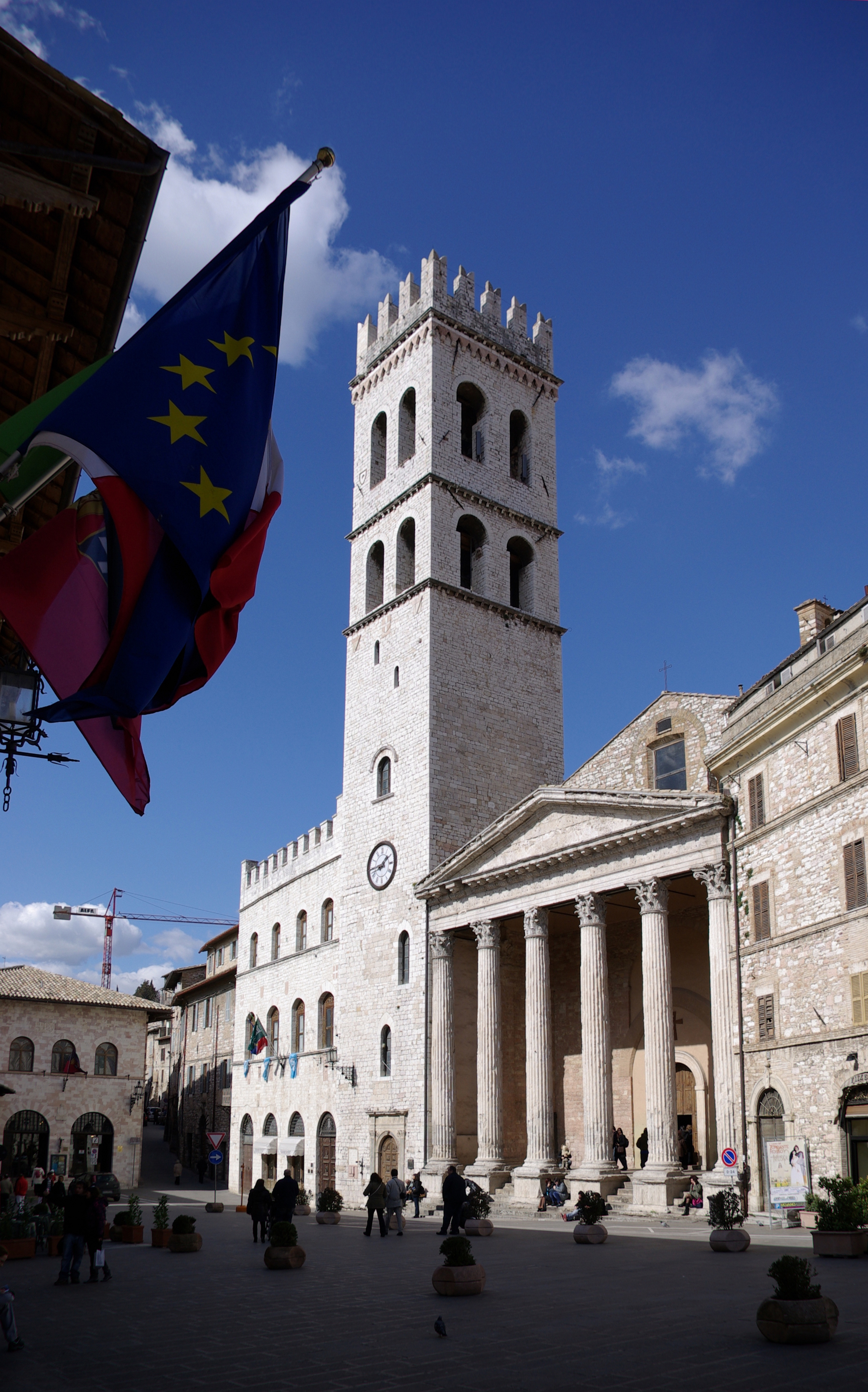 Assisi, Piazza del Comune, Church S. Maria sopra Minerva, Palazzo del Capitano del Popolo